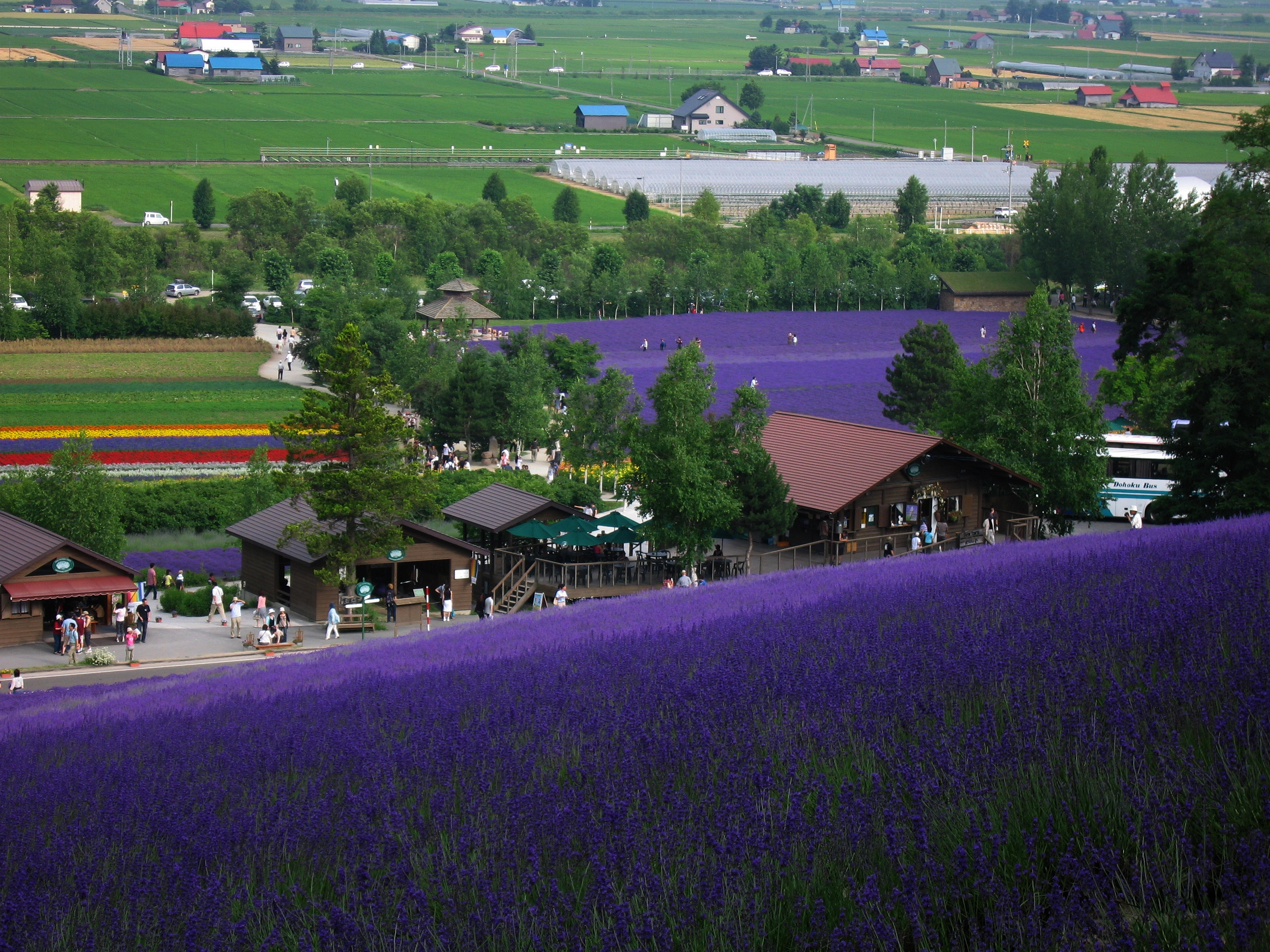 Lavender fields in Nakafurano, Hokkaido Japan